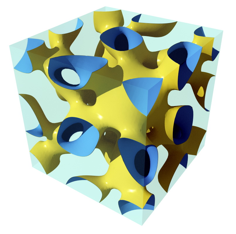 Lidinoid surface in a unit cell. The two sides have been assigned separate colours.